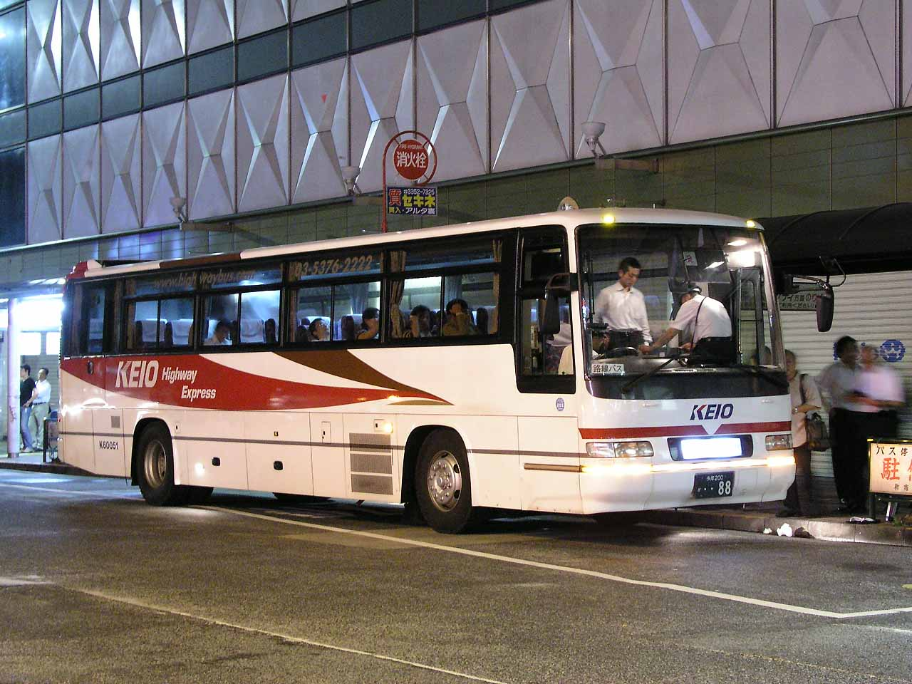 Keio Bus Higashi' s midnight express bus service from Shinjuku station. Model: Hino Selega FD KC-RU3FSCB License plate: TKT200 KA--88 Place: Shinjuku station west, Nishi-shinjuku, Shinjuku ward, Tokyo Japan